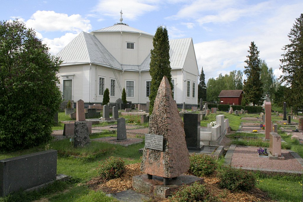 The cemetery of the parish of Myrskylä, Finland. The memorial stone of the old church is on the front of the church built in 1803.